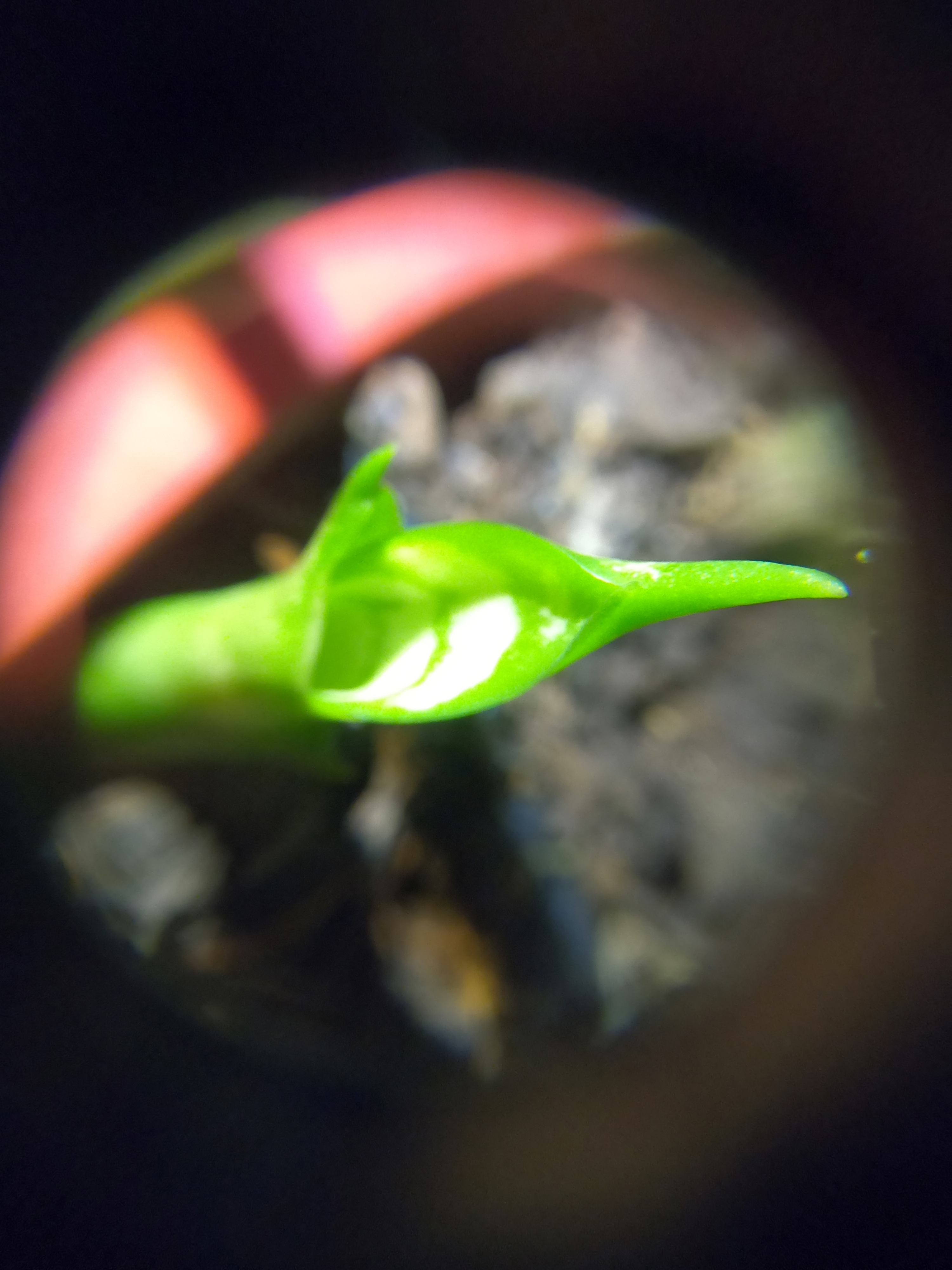 Dracaena trifasciata bud, take with zoom special lens